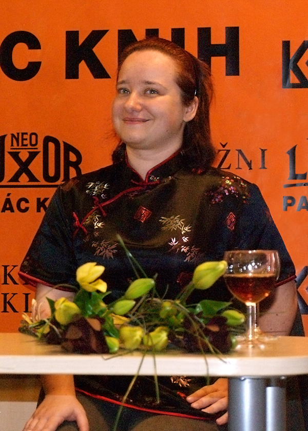 Czech fantasy illustrator Jana Šouflová